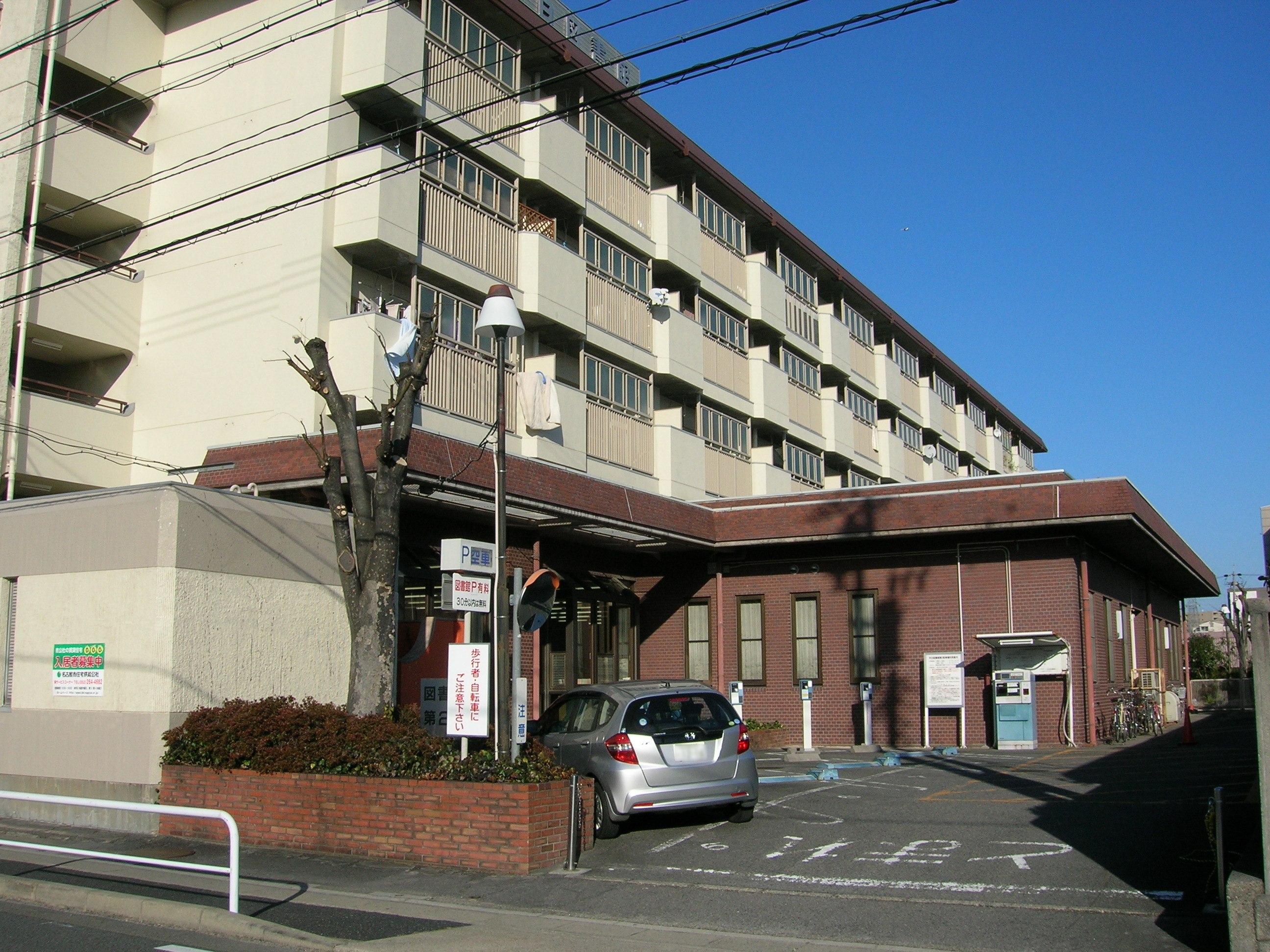 Nagoya City Tenpaku library. Loc: Tenpaku-ku, Nagoya city, Aichi Prefecture, Japan.